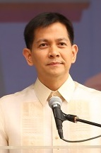 Commemoration of the 77th Anniversary of Araw ng Kagitingan - 2nd District of Bataan Congressman Jose Enrique S. Garcia III, delivers the welcome remarks.